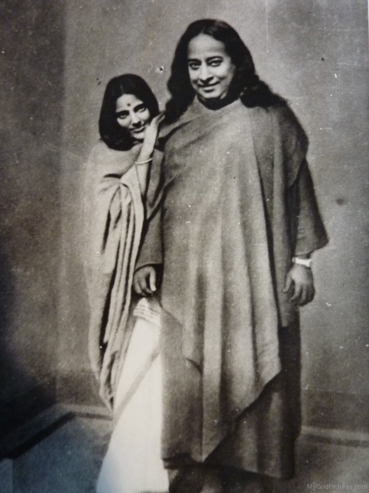 Paramahansa Yogananda (right) with Anandamayi Ma (left).